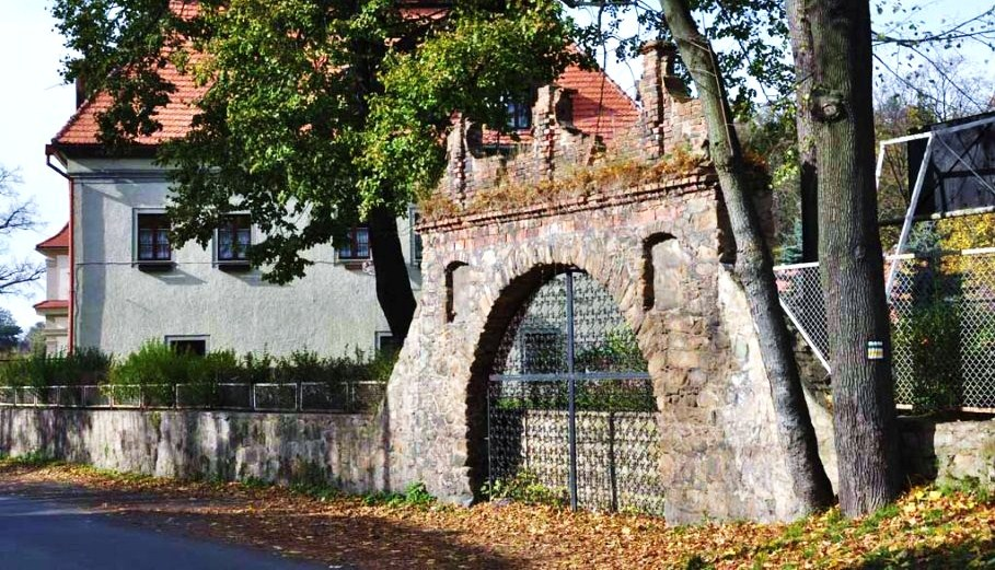 Janowice Wielkie - part of the defensive wall